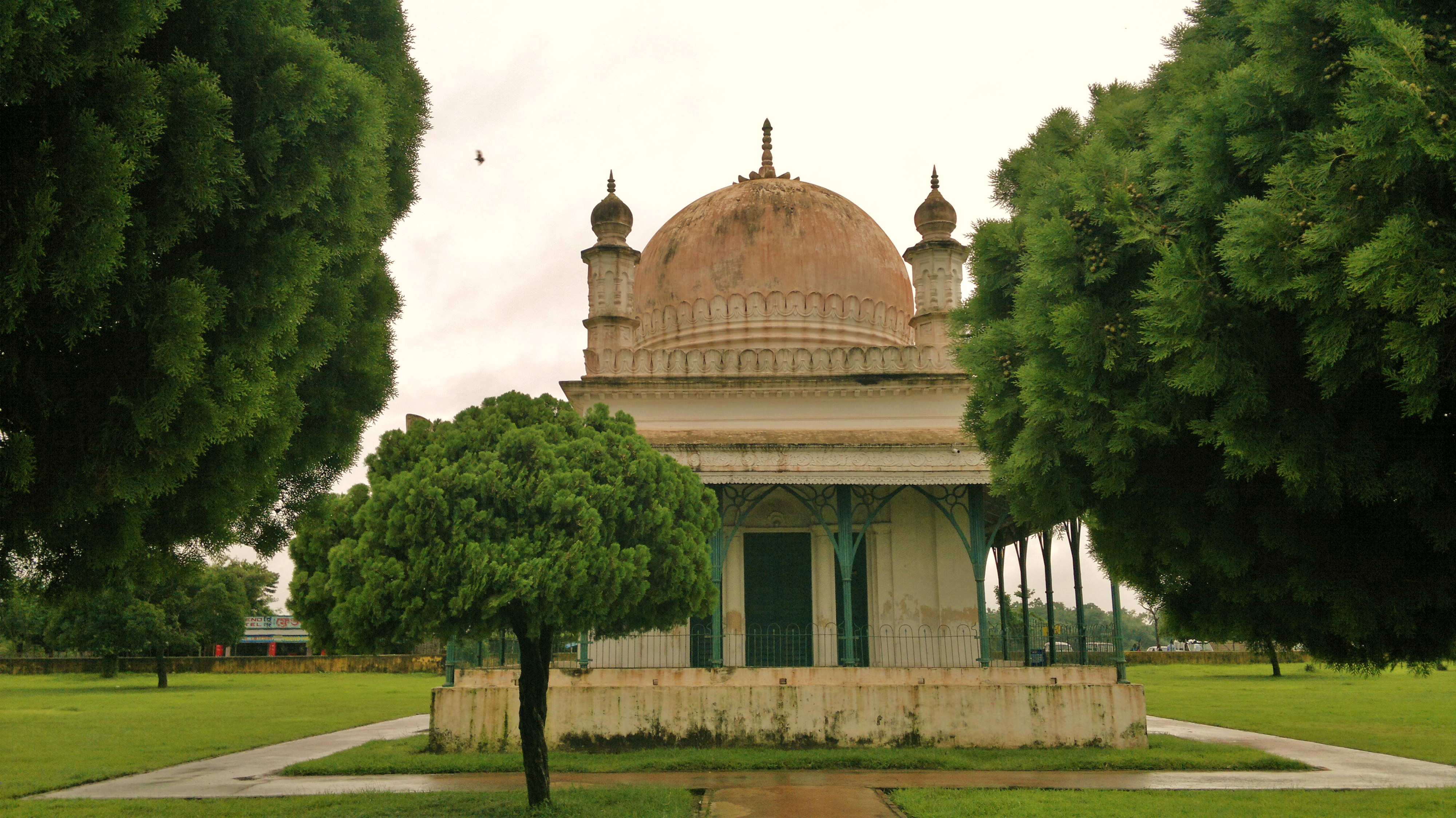 Hazarduari Palace & Imambara (Murshidabad)